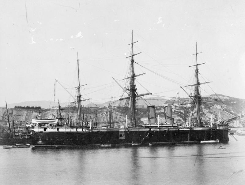 Royal Navy Ships Pre-1914 HMS Superb.